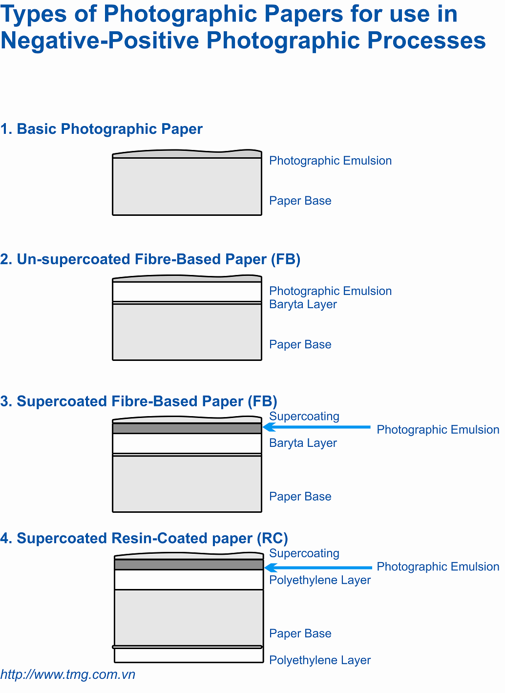 Coated paper's surface and base